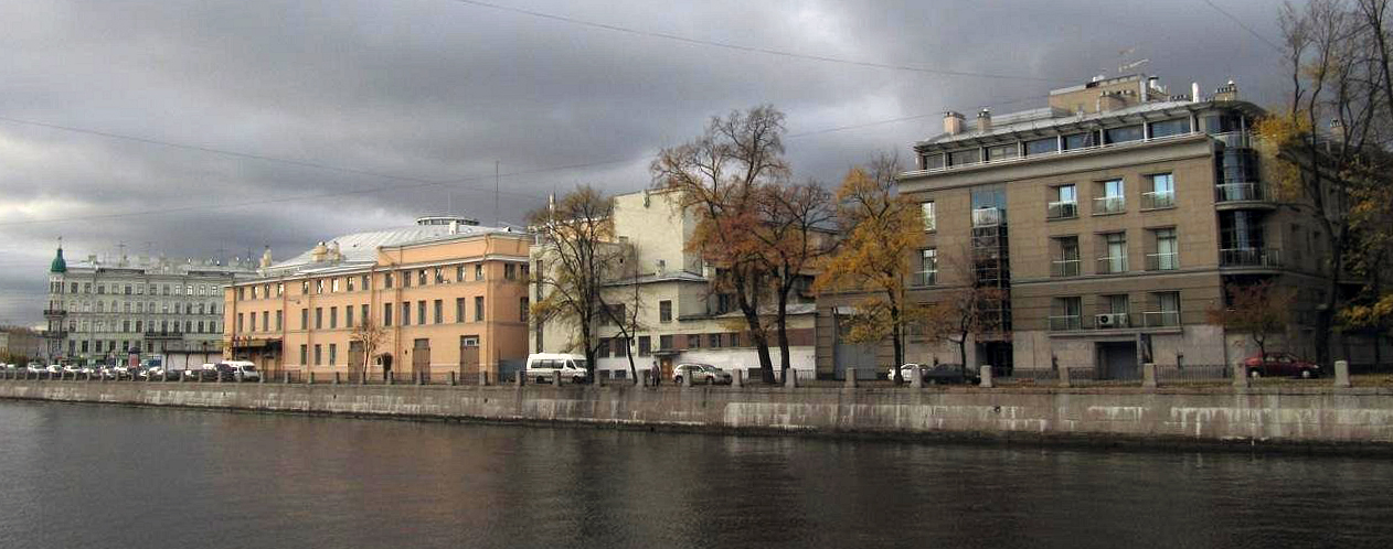 Traction substation at Fontanka quay